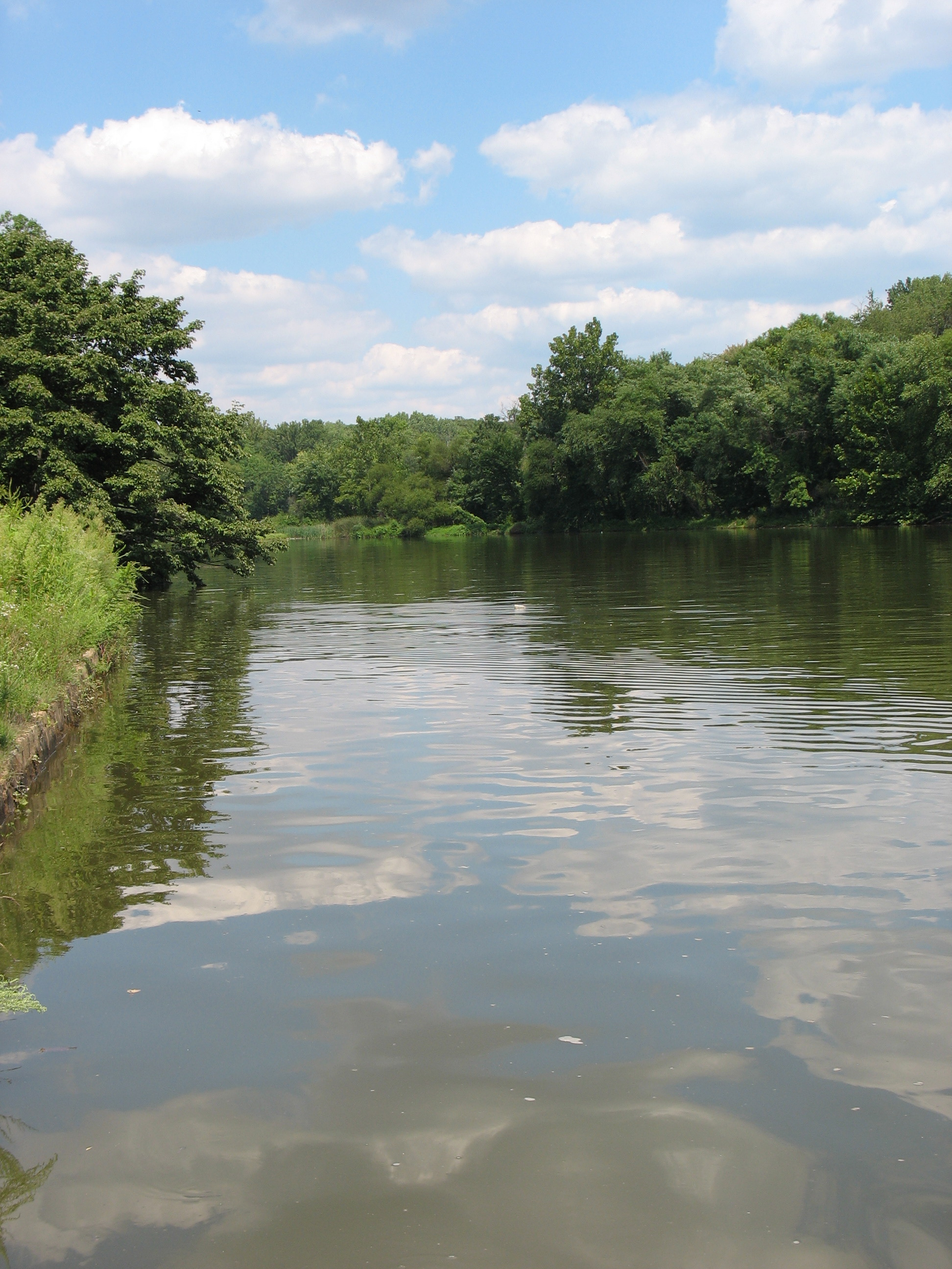 The river runs along the edge of the Arboretum.